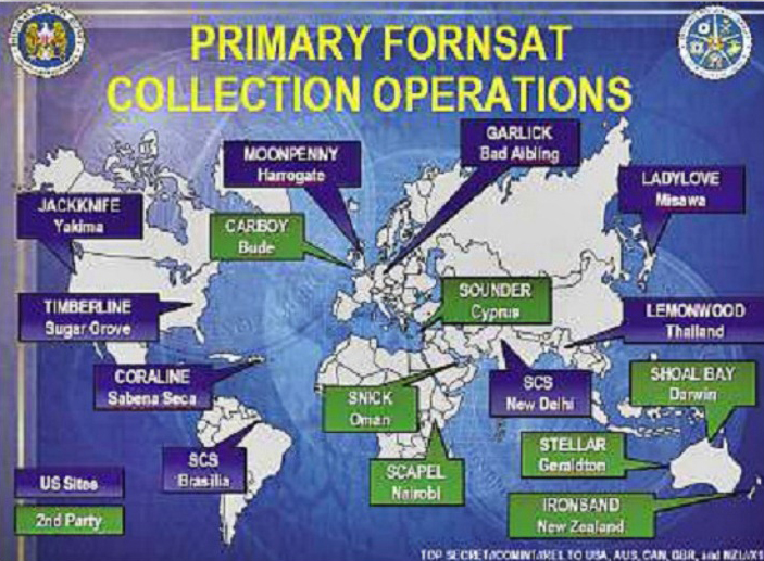 Map from a 2002 NSA presentation showing ground stations used to intercept foreign communications satellites under the ECHELON program.